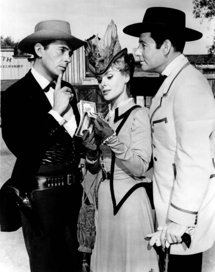 Photo of Jack Kelly as Bart Maverick, Kathleen Crowley and Mike Road as Pearly Gates, a nemesis of Bart's, from the television program Maverick.